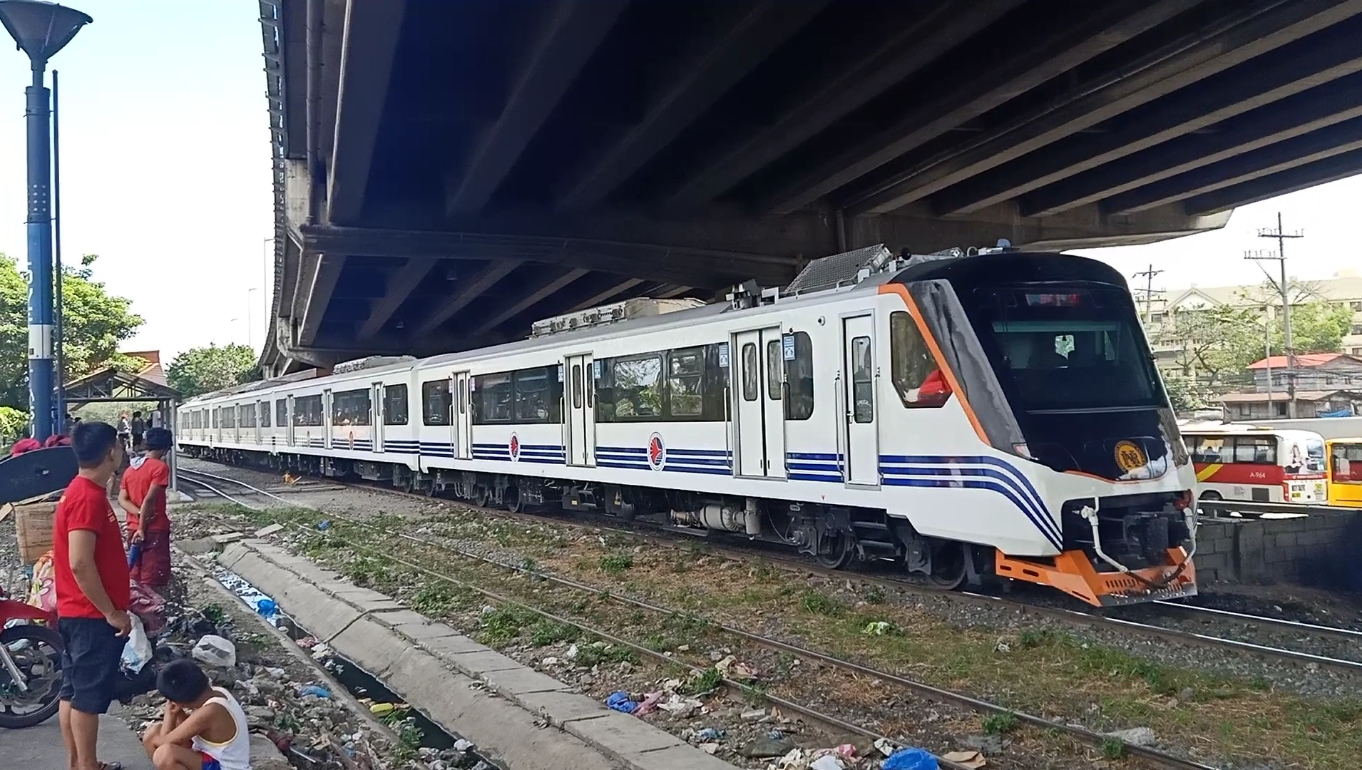 This is the new INKA DMU (8100 class). The 8100 class is in 4-car configuration.